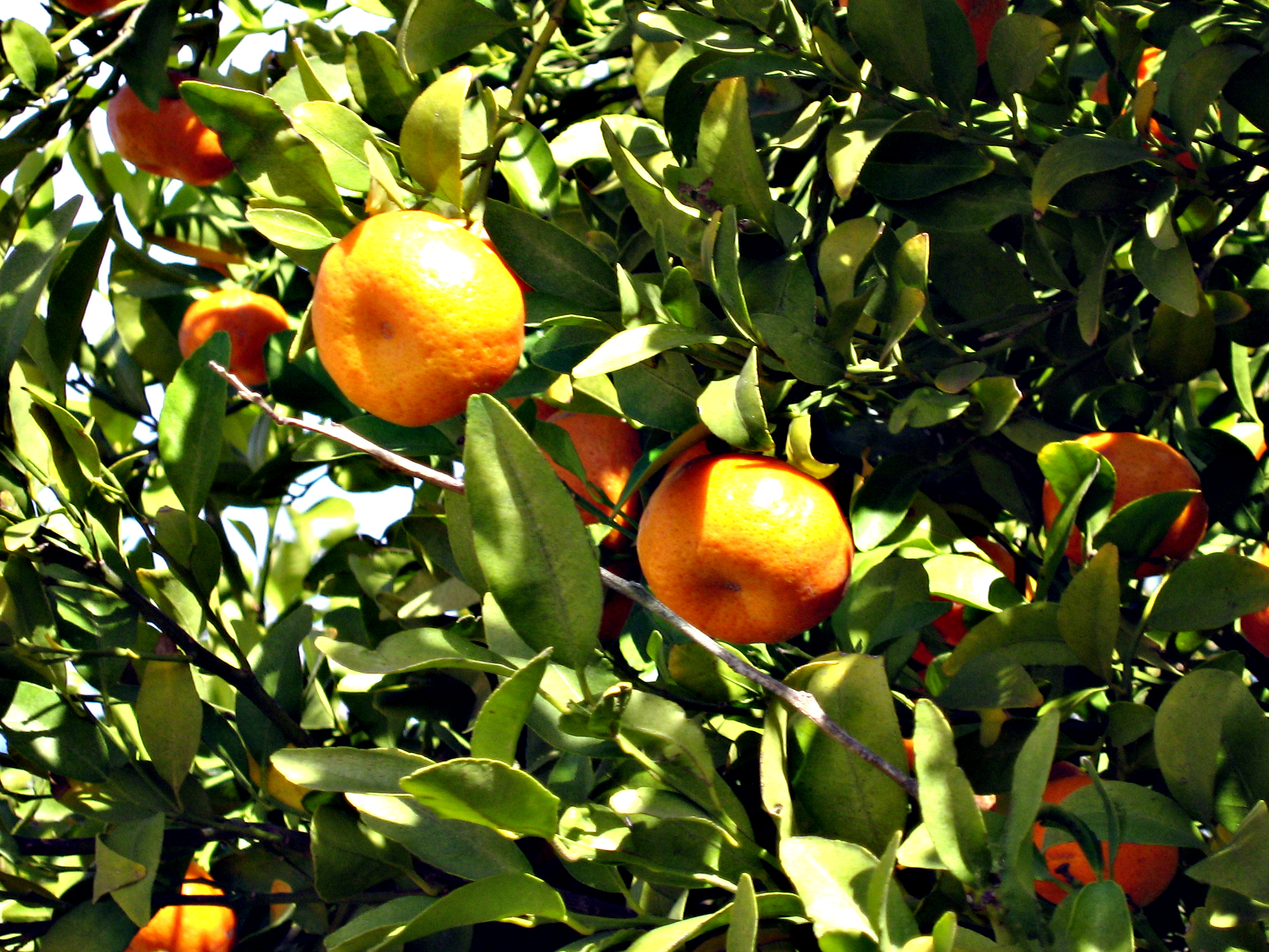 Mandarin orange. Libya. Tripolitania.